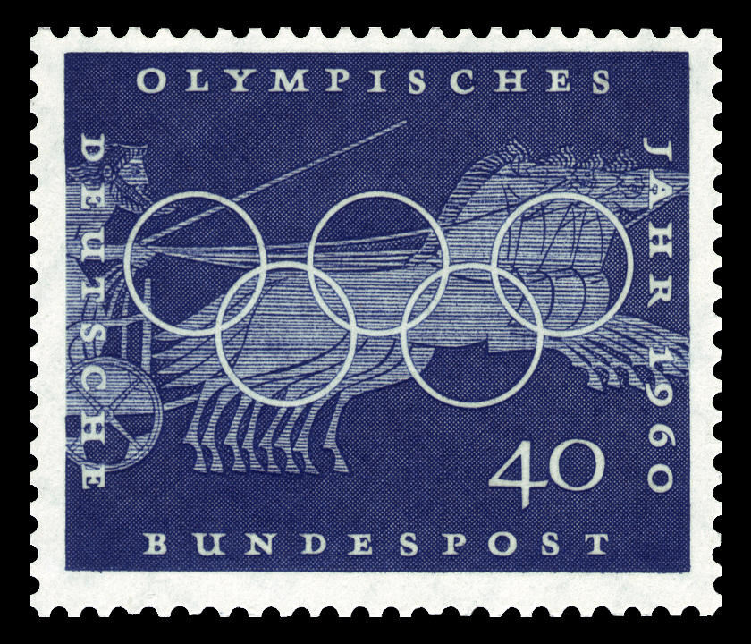 Olympic Summer Games in Athens